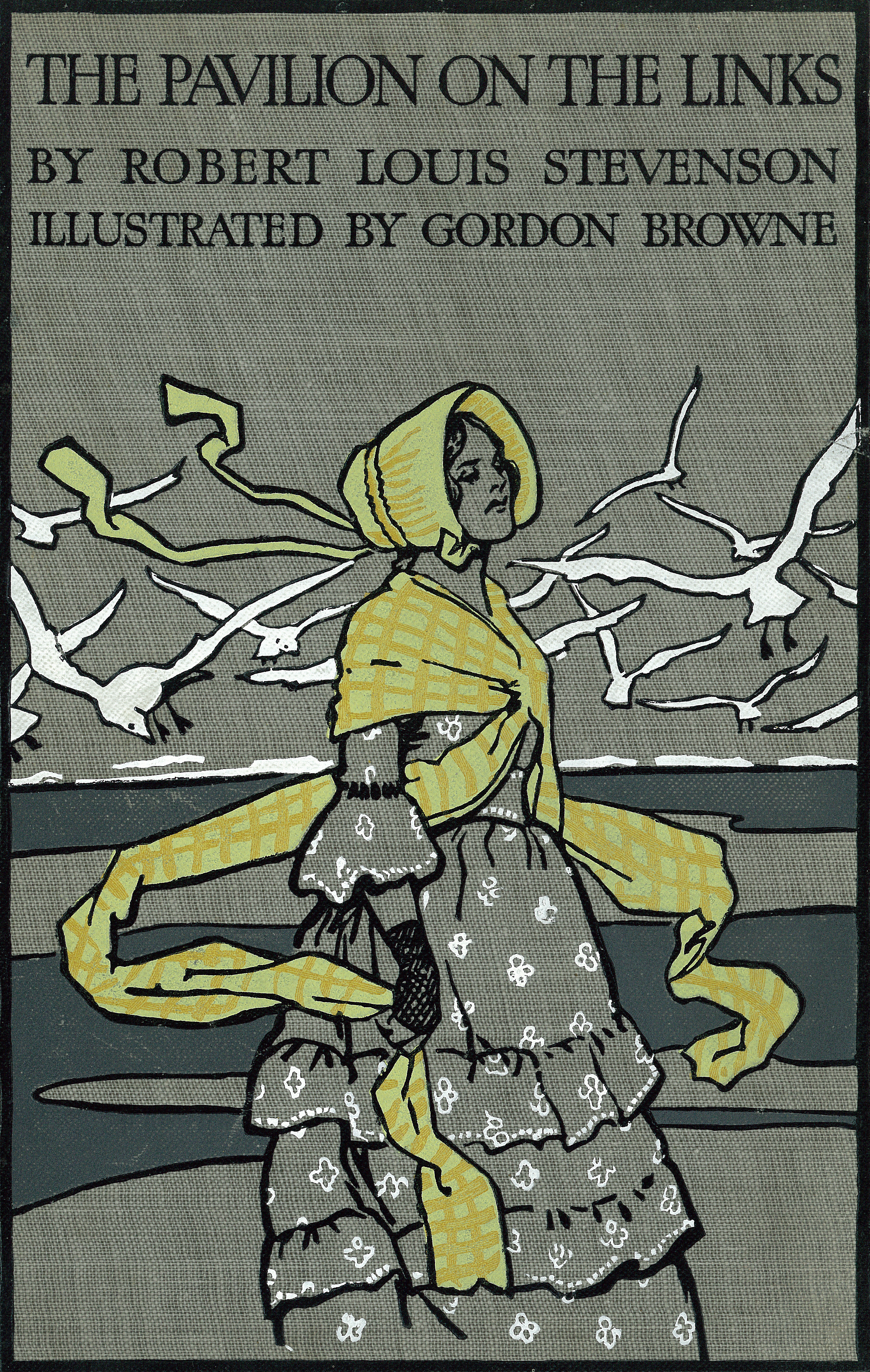 Cover